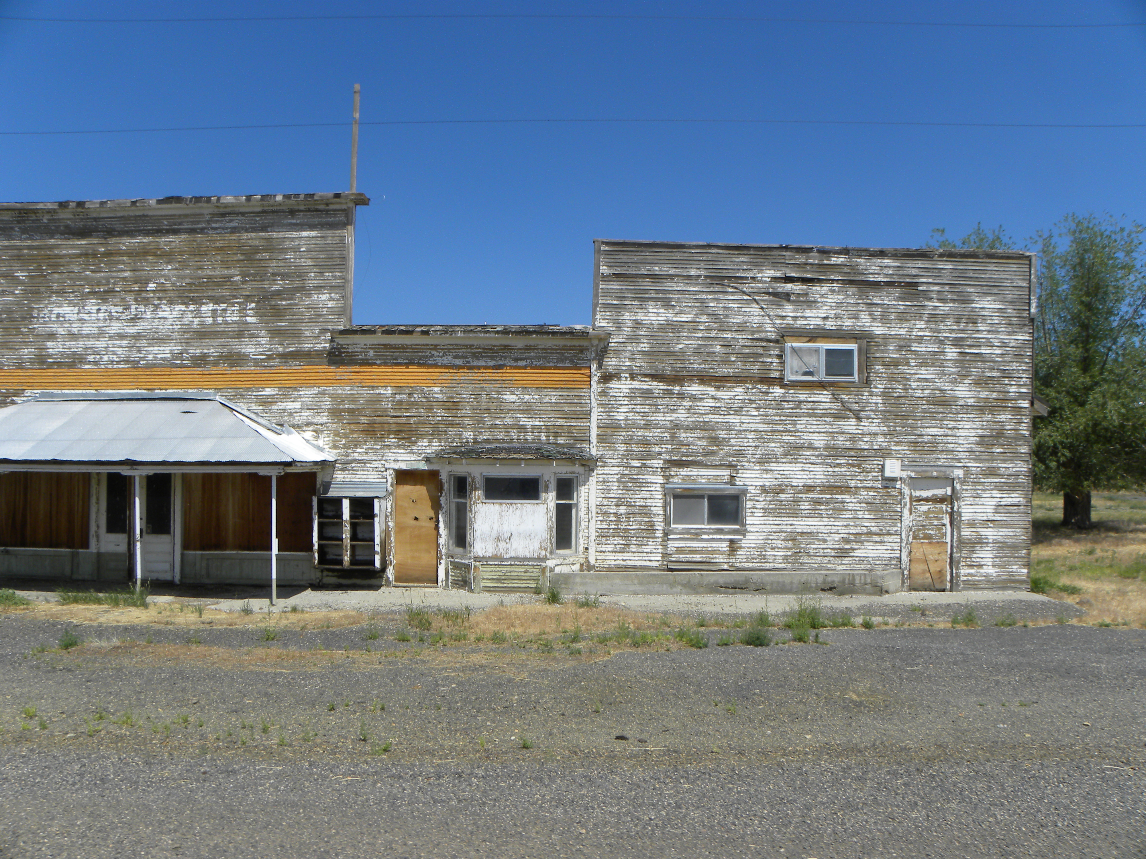 Part of an abandoned building in Ironside, Oregon, still a populated place in Malheur County